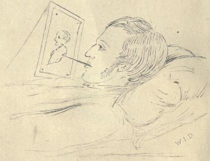 Portrait of John Carter, mouth artist, at work